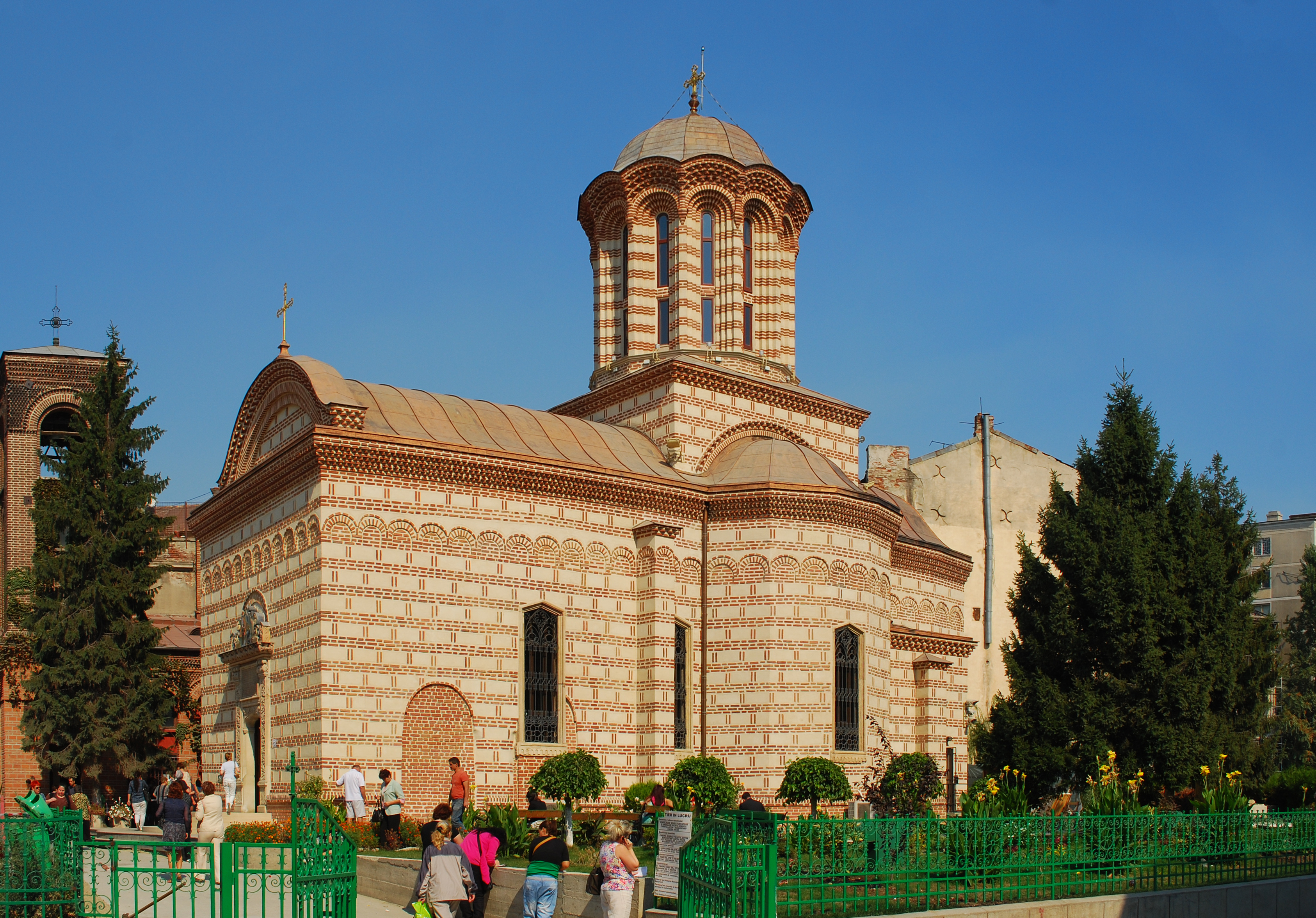 Curtea Veche church (church of the Anunciation) in Bucharest, RomaniaRomână: Biserica Buna Vestire (Curtea Veche) din Bucureşti, România 01